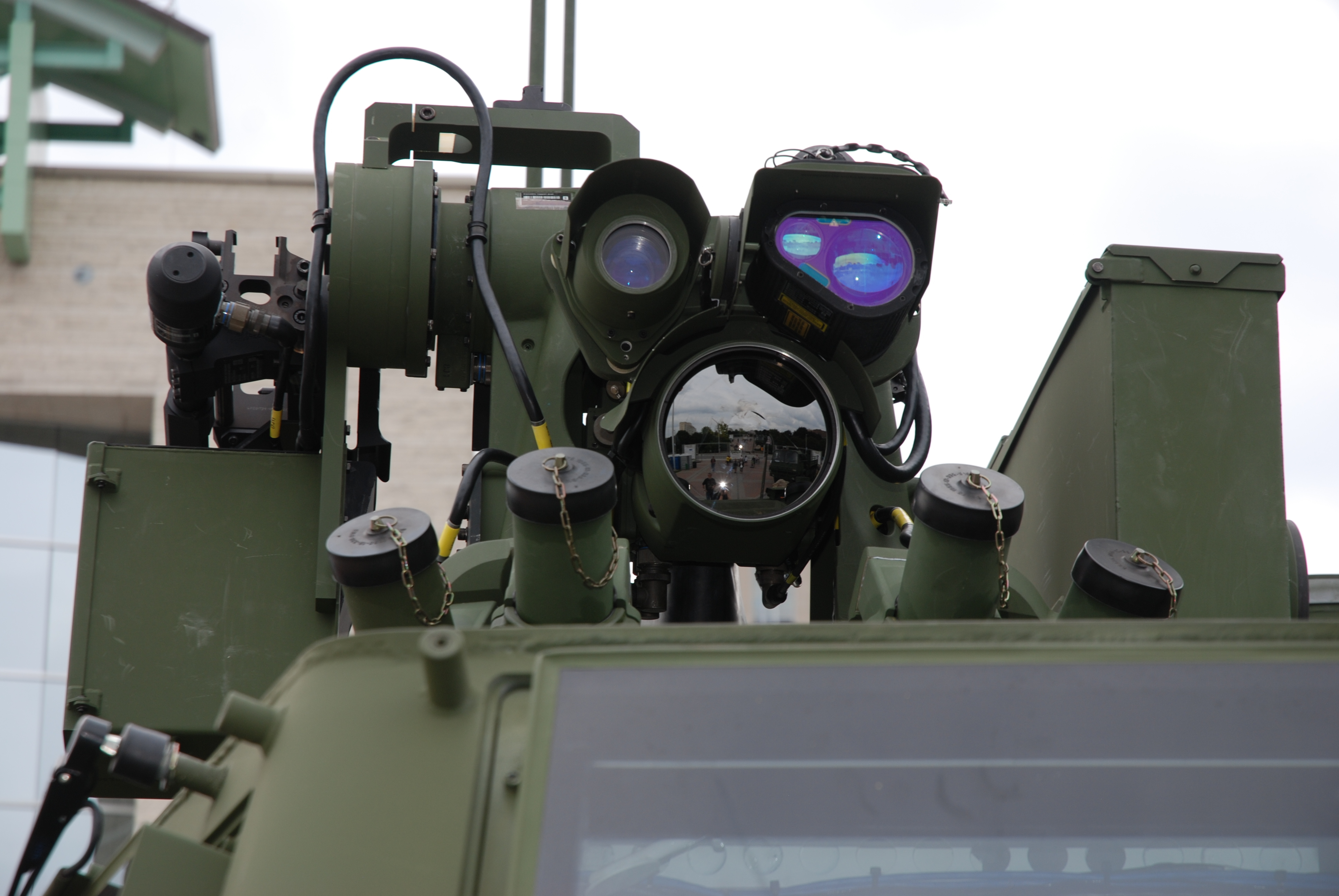 Textron Tactical Armoured Patrol Vehicle at Ottawa City Hall, View of Protector Remote Weapon System